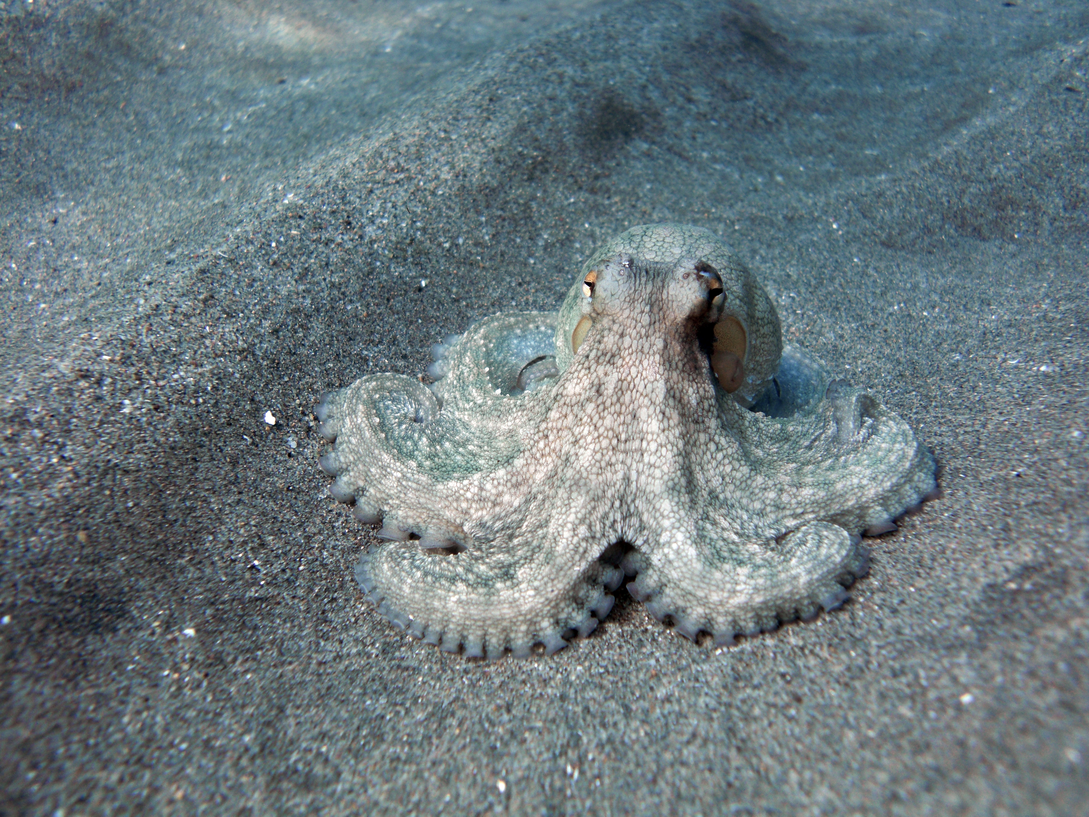 Octopus vulgaris in Cabo de Gata Beach (Almeria)